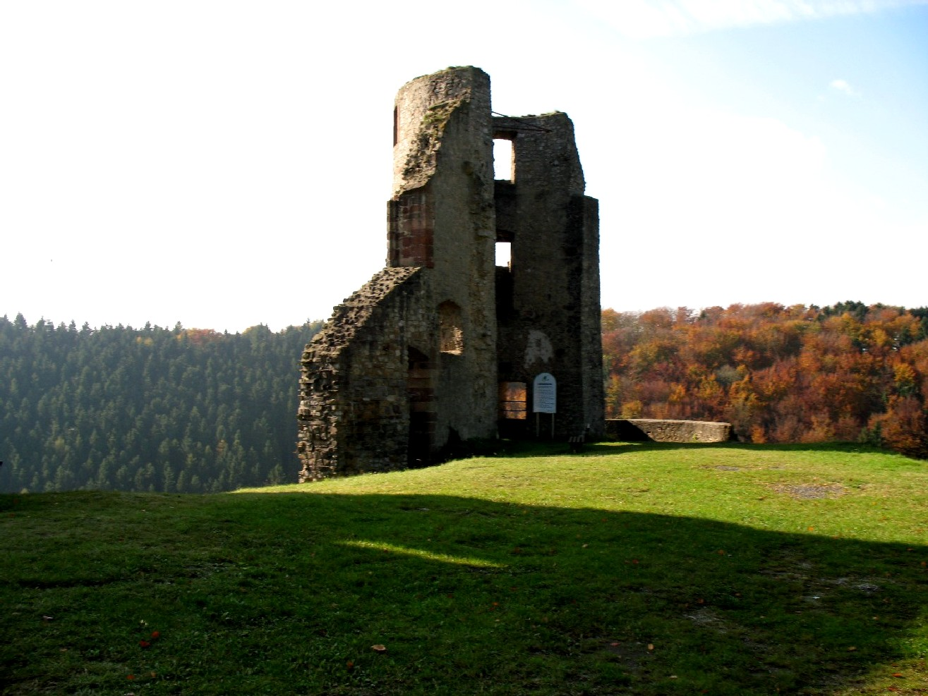 Burg Schonecken Ruins